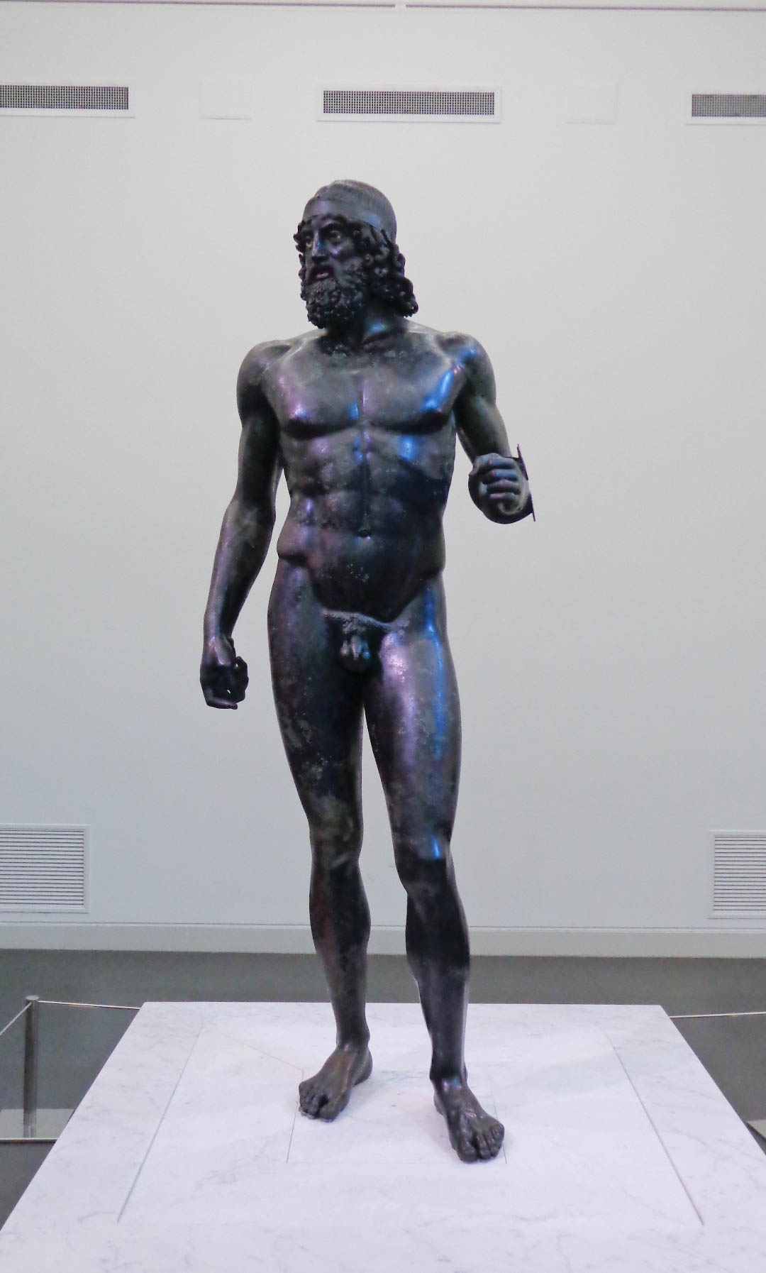 Riace bronze A. Front vue.